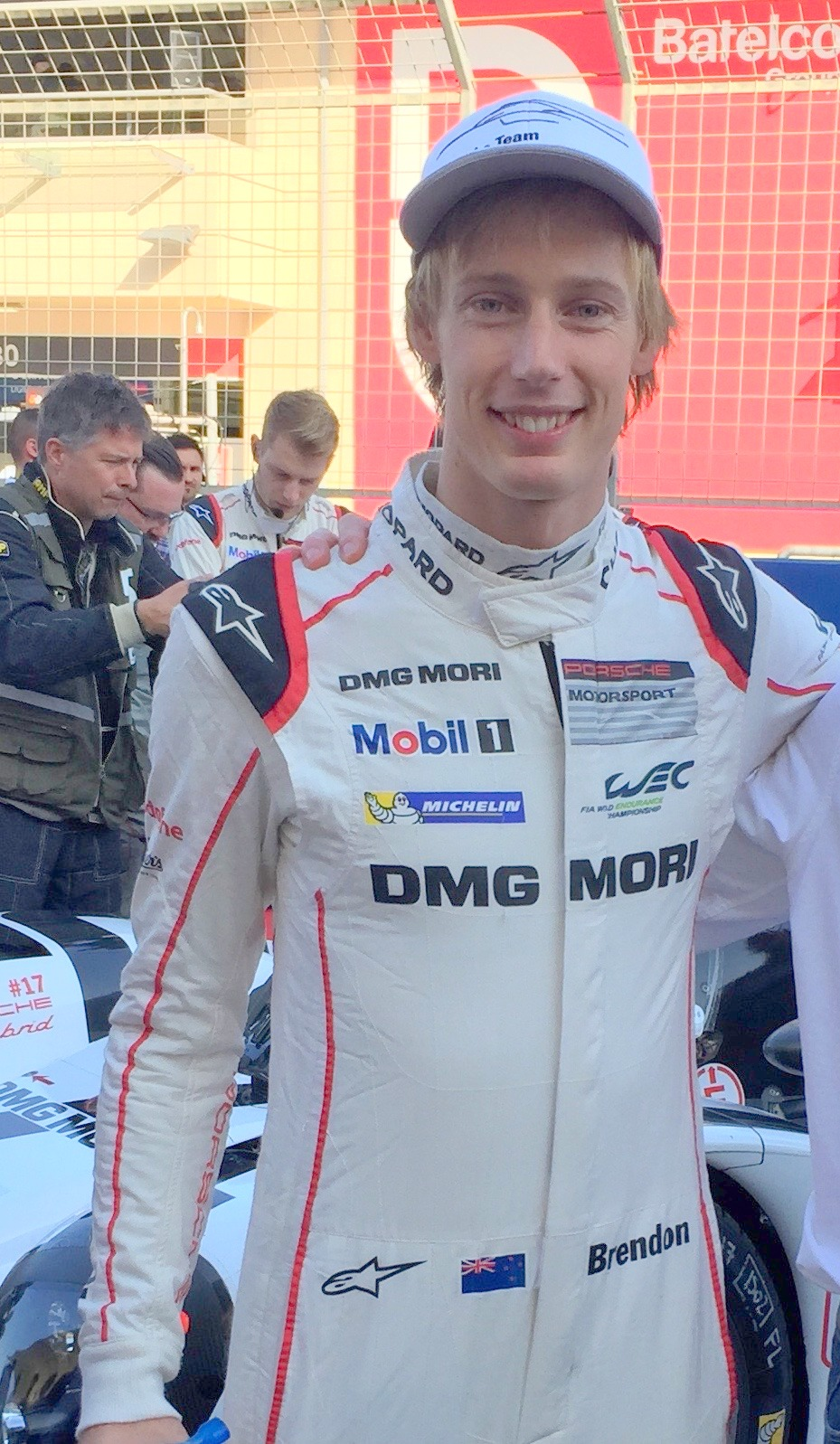 Brendon Hartley 2015